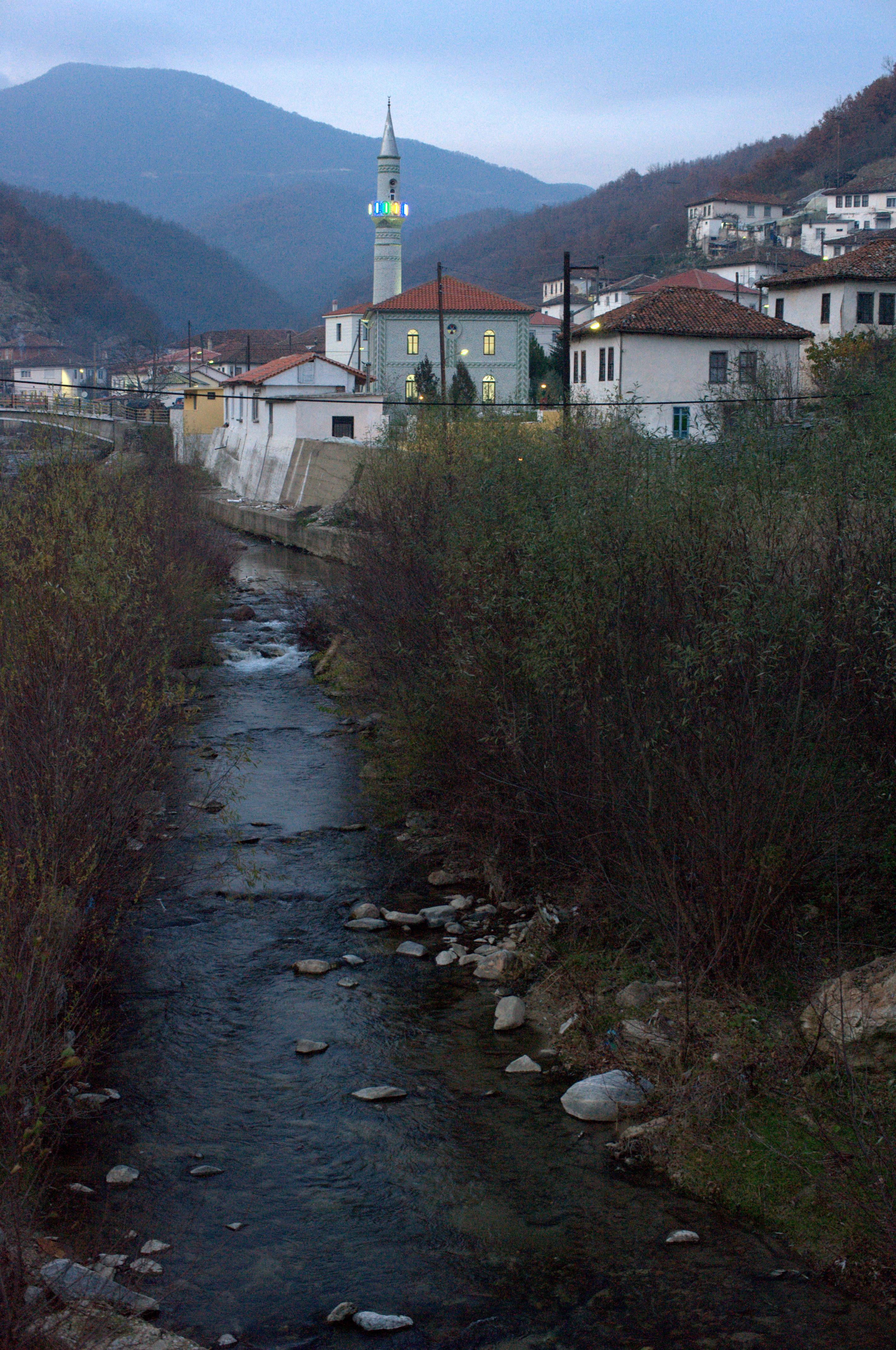 Medusa pomak village, Xanthi, Thrace, Greece.